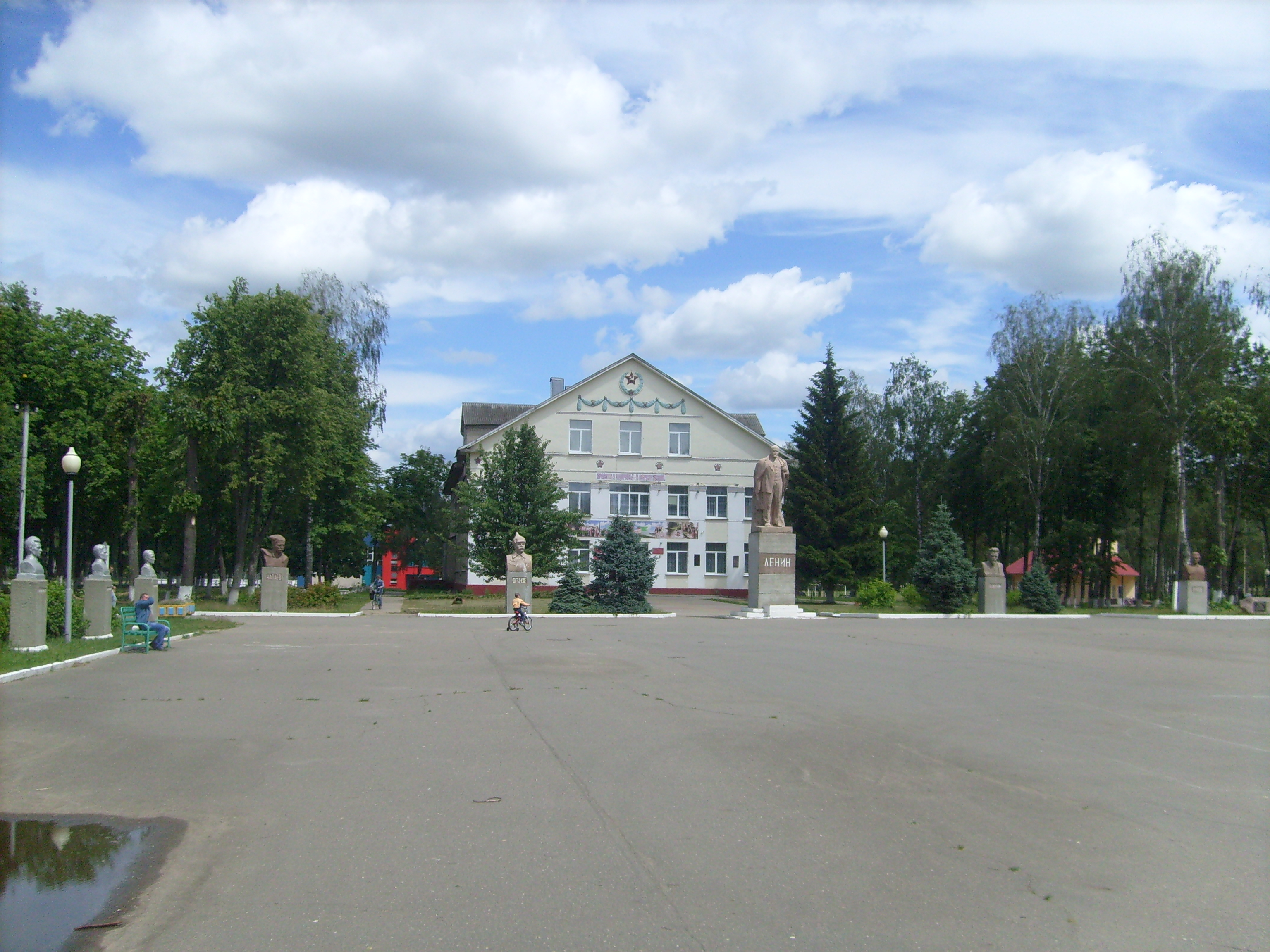 Military town Bykhov-1. Heroes Square. House officers